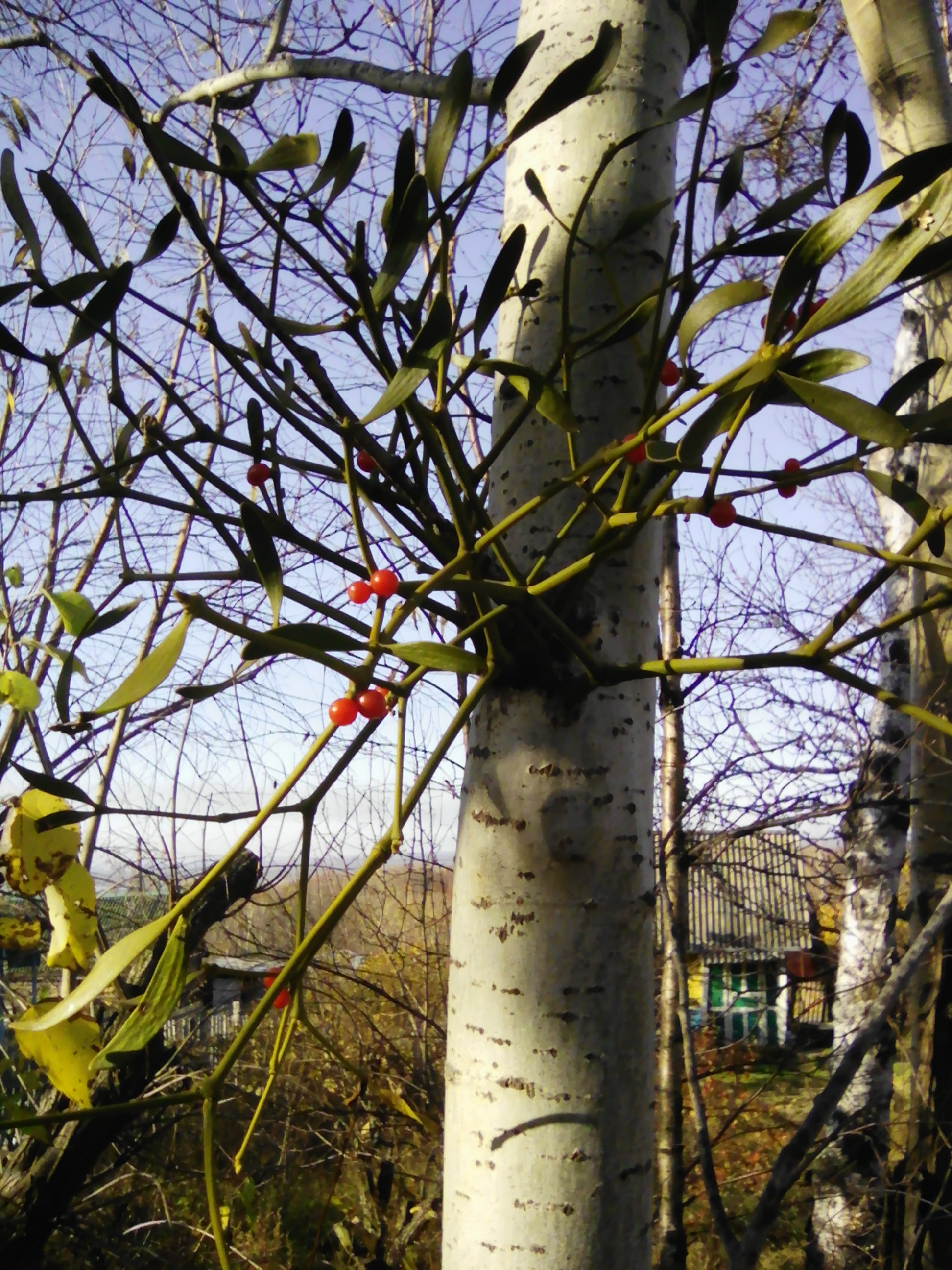 Viscum coloratum on Aspen about Khabarovsk, Russia